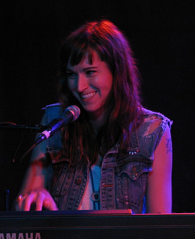 Holly Miranda performing as part of Asbury Cafe series at The Saint in Asbury Park, NJ on June 10, 2015